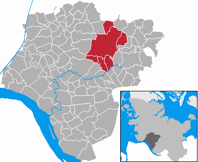 This map shows the area of the former Amt (county) Hohenlockstedt in the Kreis (district) Steinburg, Schleswig-Holstein, Germany.